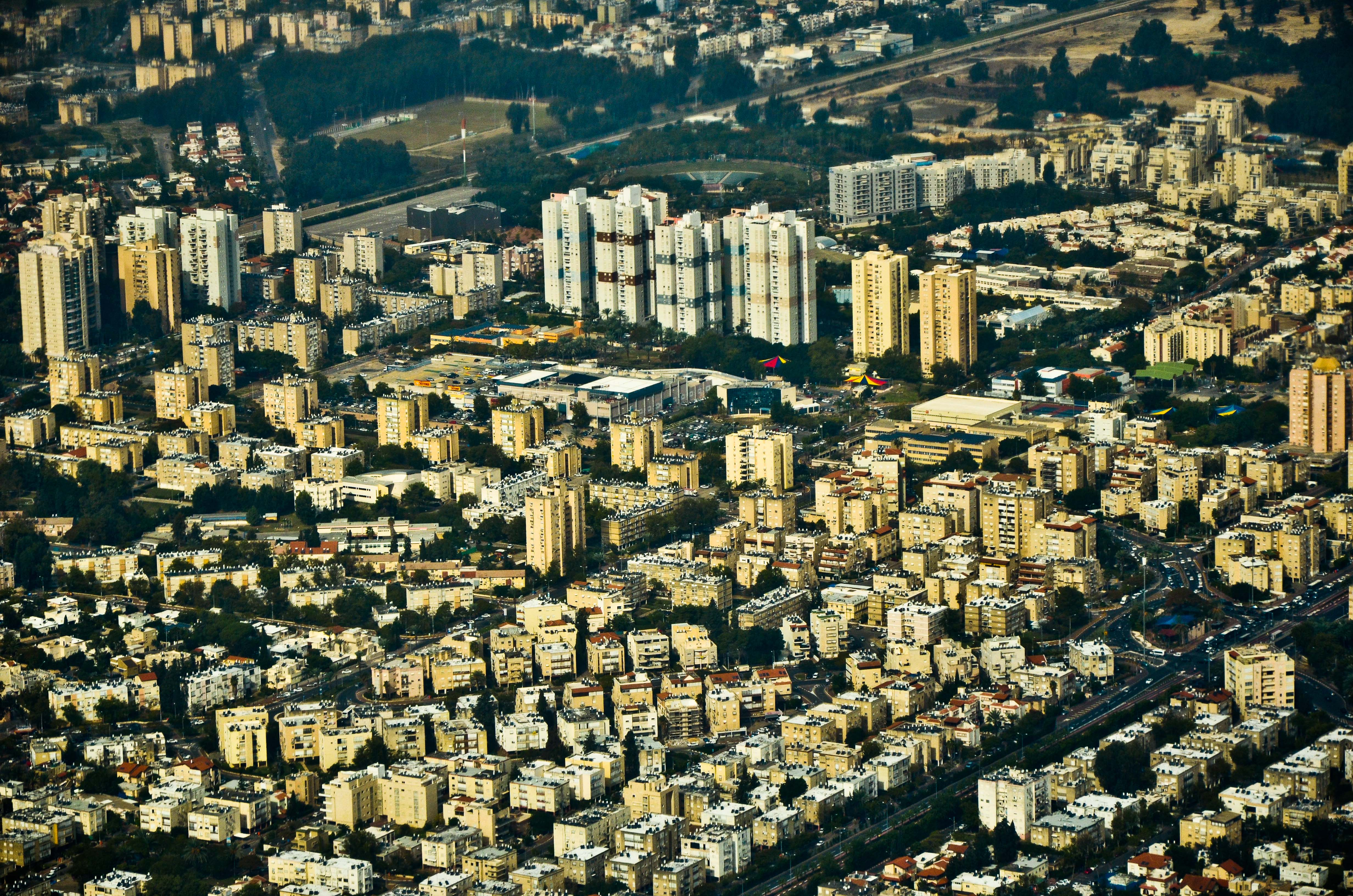 The northern neighbourhoods of Kiryat Motzkin - aerial view. Shot taken from plane flown by Ilan Maytal